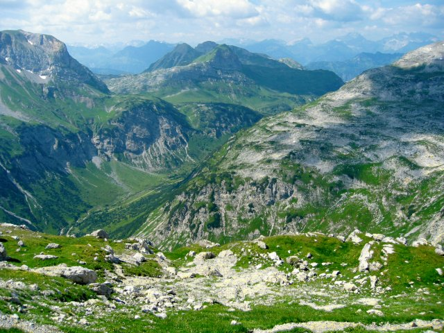 The Lechquellengebirge in the Northern Limestone Alps in Austria. Original taken from the German Wikipedia.